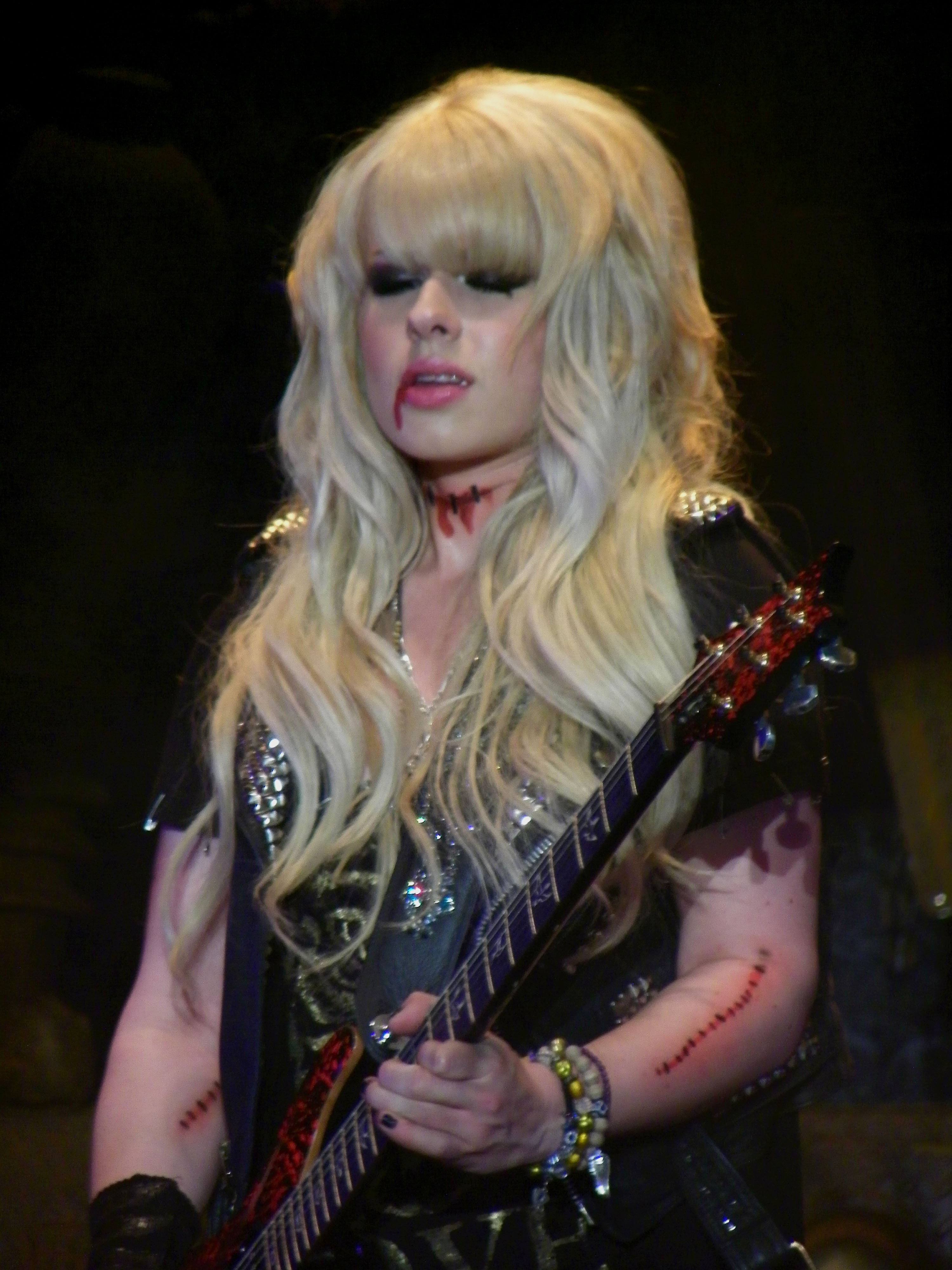 Orianthi, guitarrist of Alice Cooper, performing live at "Alice Cooper's Halloween Night of Fear 2011".